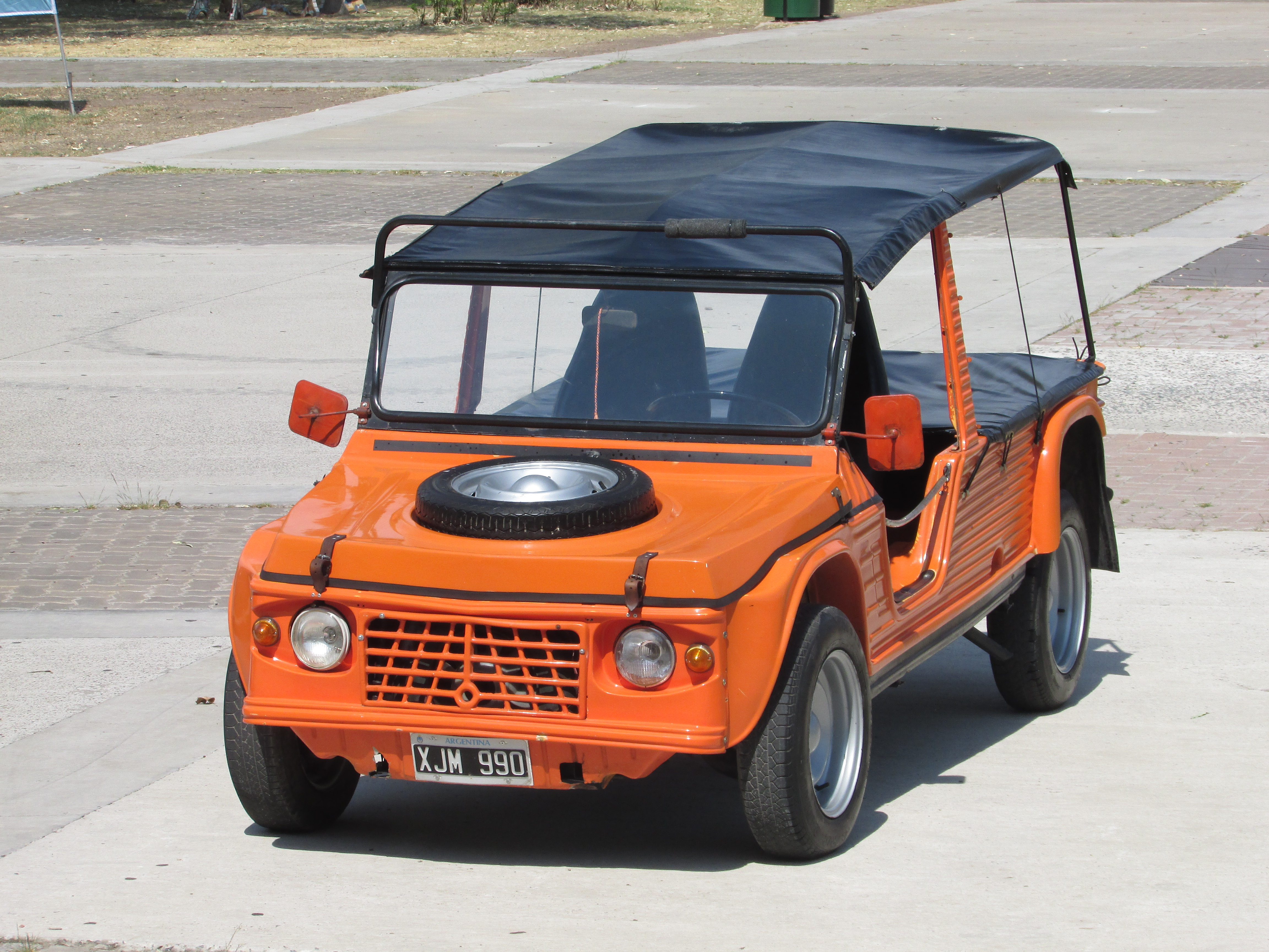 Mehari Ranger: one of the South American versions of the French off-road Citroën Méhari. This car was produced in Uruguay/Argentina during the late 70s. The body was made in fiberglass, instead of ABS plastic.